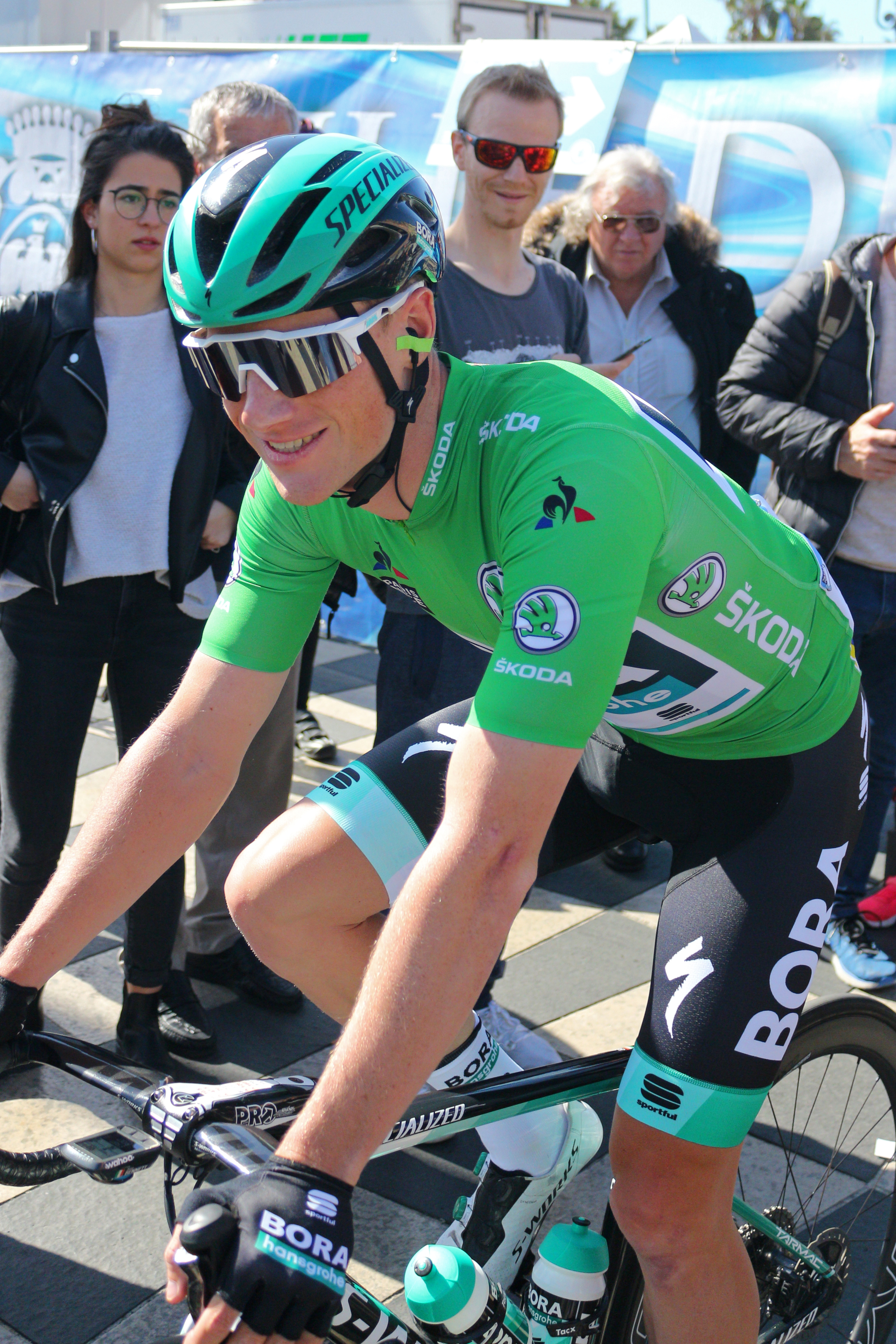 Sam Bennett at the beginning of the 7t stage of Paris-Nice